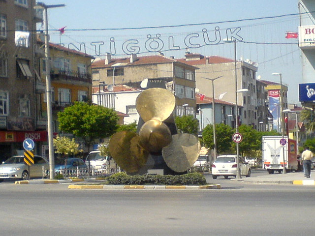 A screw of SMS Goeben (TCG Yavuz). This monument stands in Gölcük city center.